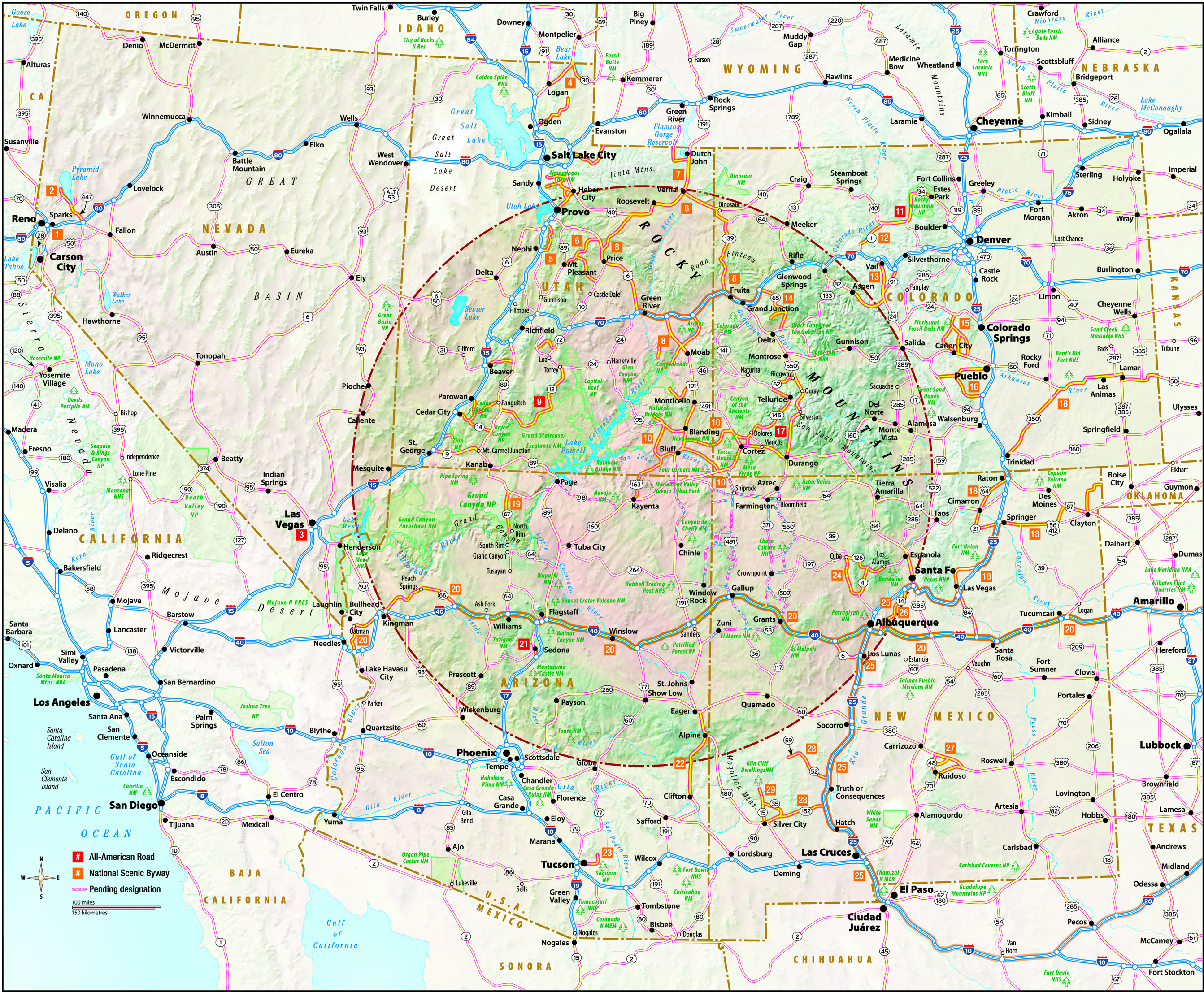 Grand Circle Map